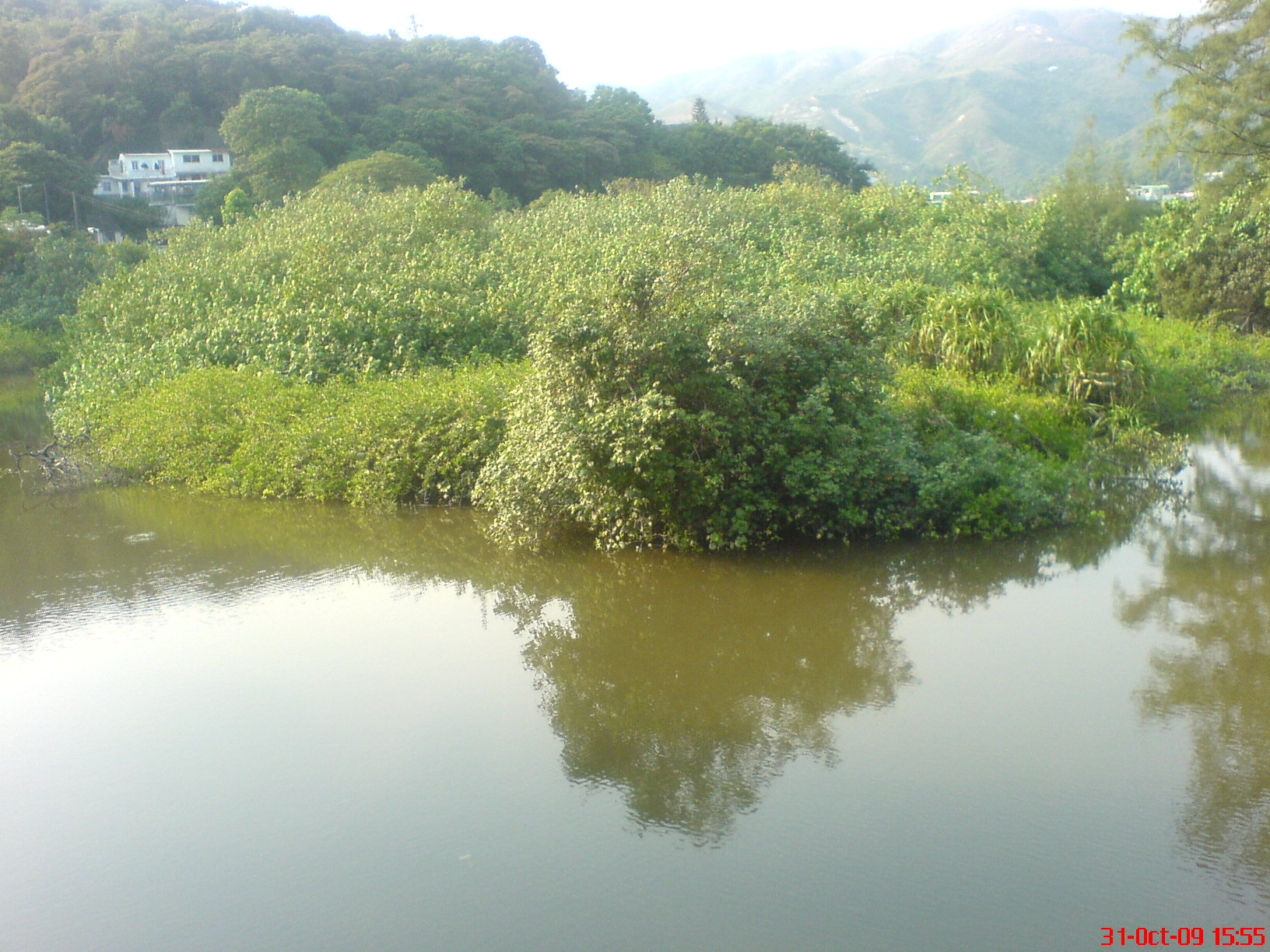 Mangroves near Wang Tong River, Lantau Island, Hong Kong.